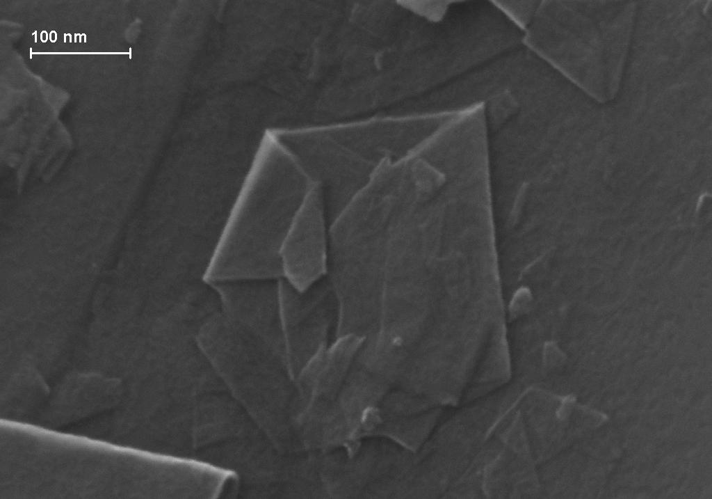 A powder containing a little graphene flakes. The image was obtained using a scanning electron microscope. A wikipedia graphene article can be supplemented by this SEM image.